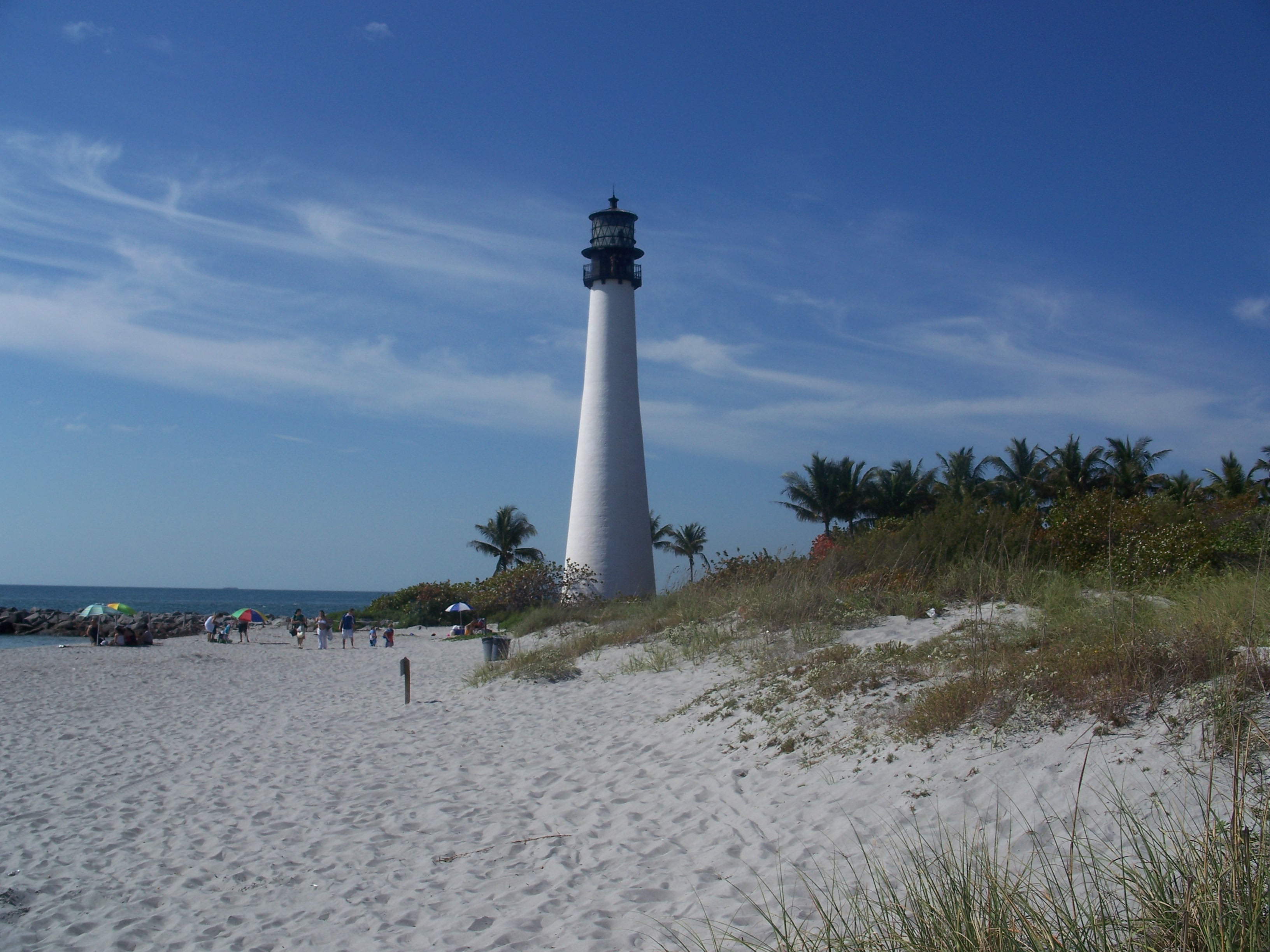 Key Biscayne: Bill Baggs Cape Florida State Park: Cape Florida Light